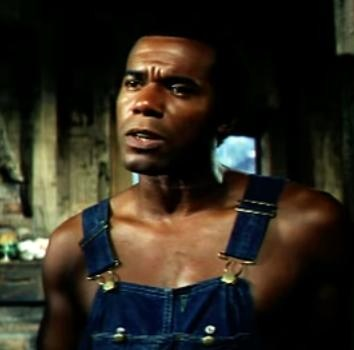 Robert Hooks in Hurry Sundown - trailer (cropped screenshot)